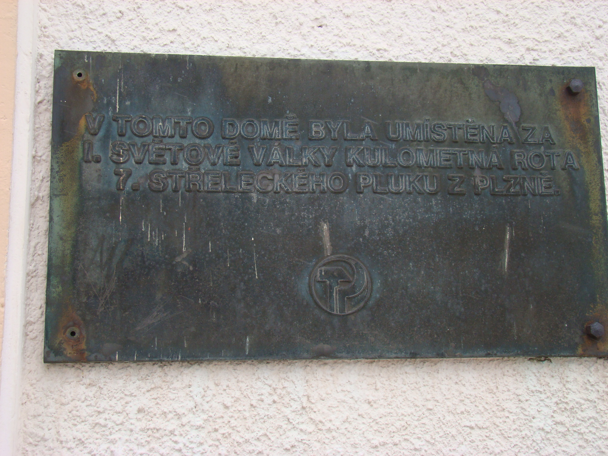 Is it memorial plaque in school into V. Kovář street into Rumburk.